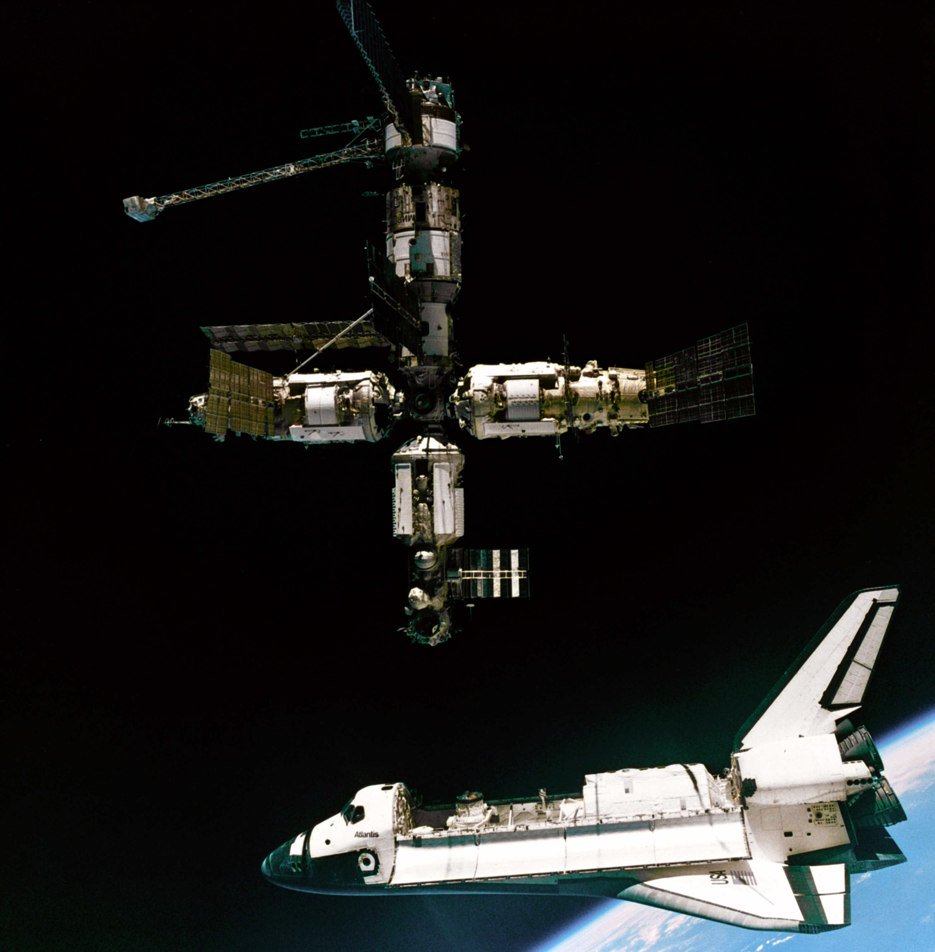 A view of the Space Shuttle Atlantis departing the Mir Russian Space Station. This image was taken during the STS-71 mission by cosmonauts aboard their Soyuz TM transport vehicle. The scene is backdropped by the Earth's limb.